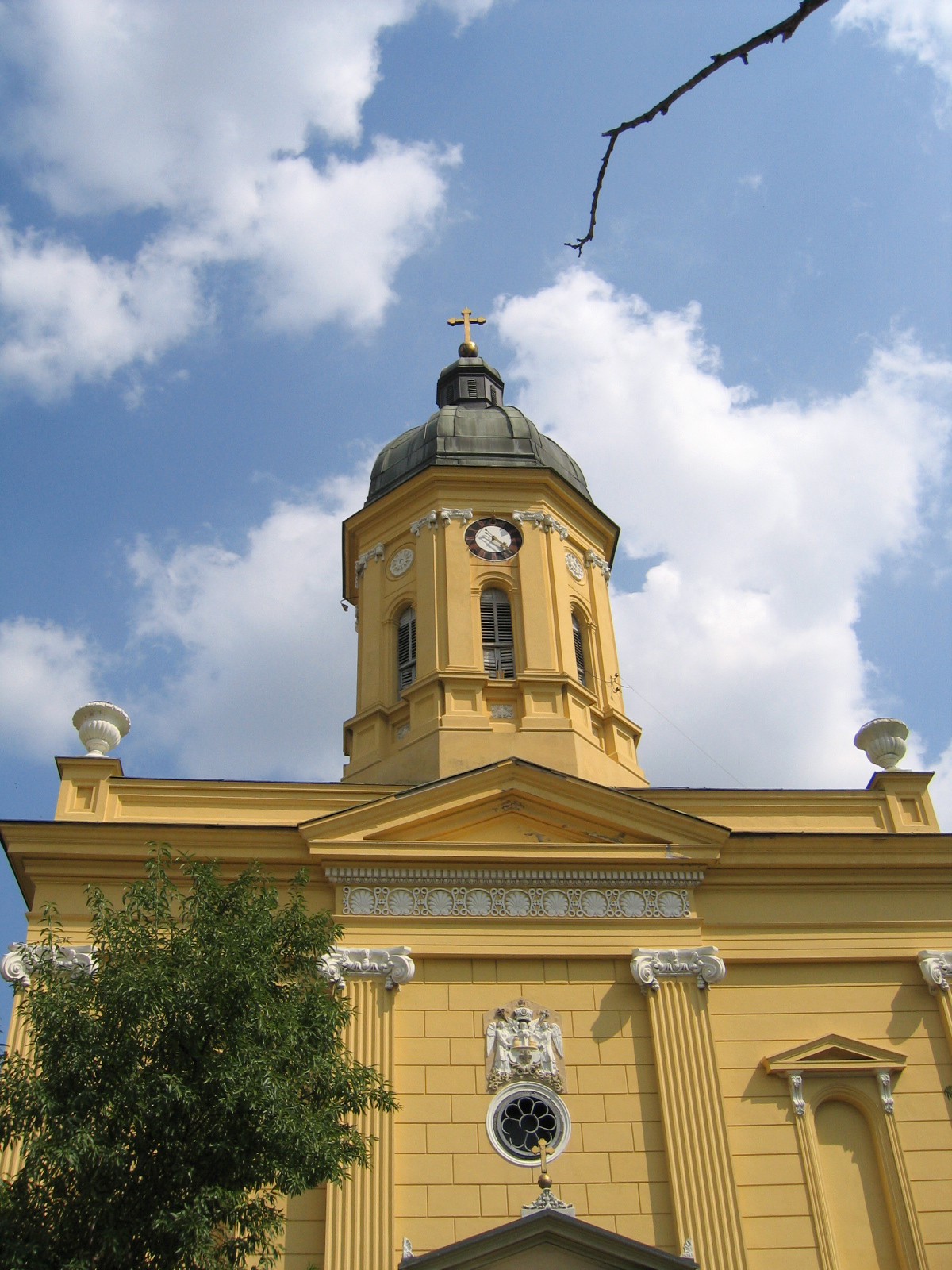 Church in Negotin, Serbia